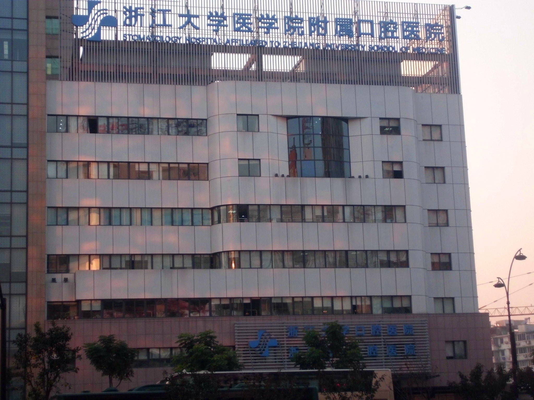 Zhejiang Stomatology Hospital